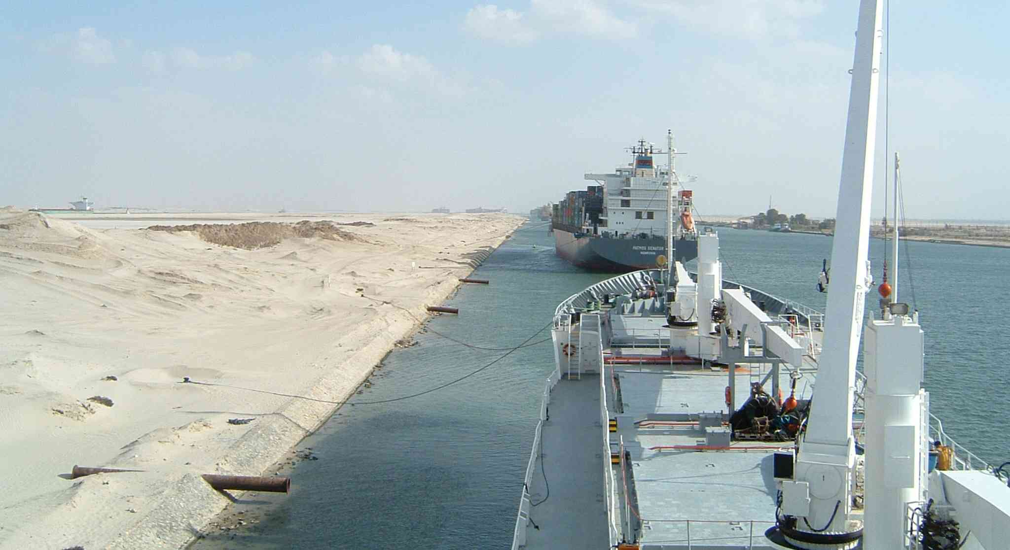 LONDON SENATOR Moored at El Ballah suez canal transit. IMO Number: 9056090 MMSI Number: 211217130 Callsign: DEDM Length: 216 m Beam: 32 m